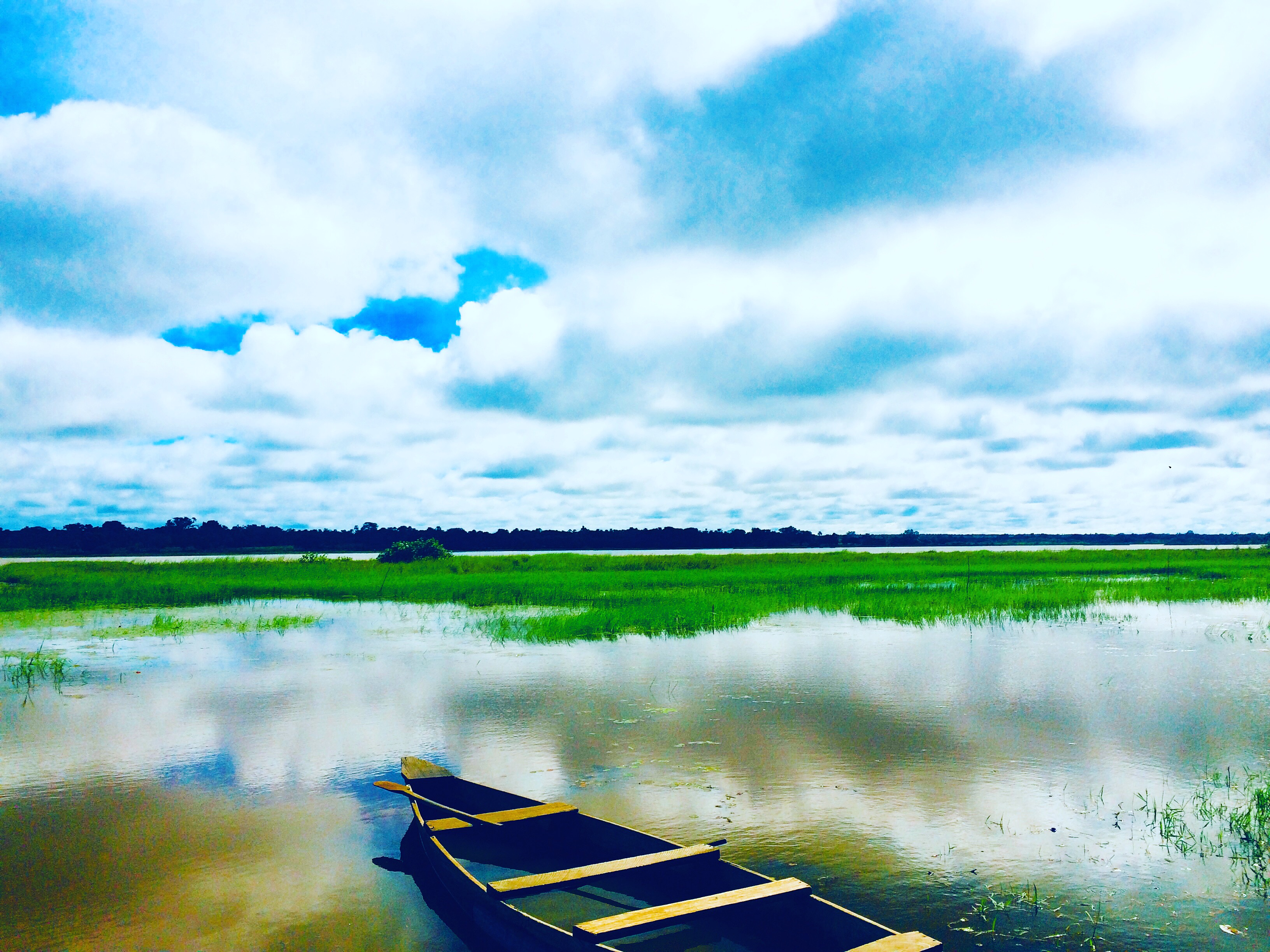 Une vue sur le lac ( instant de pêche) This is an image with the theme "Play" from: Burkina Faso